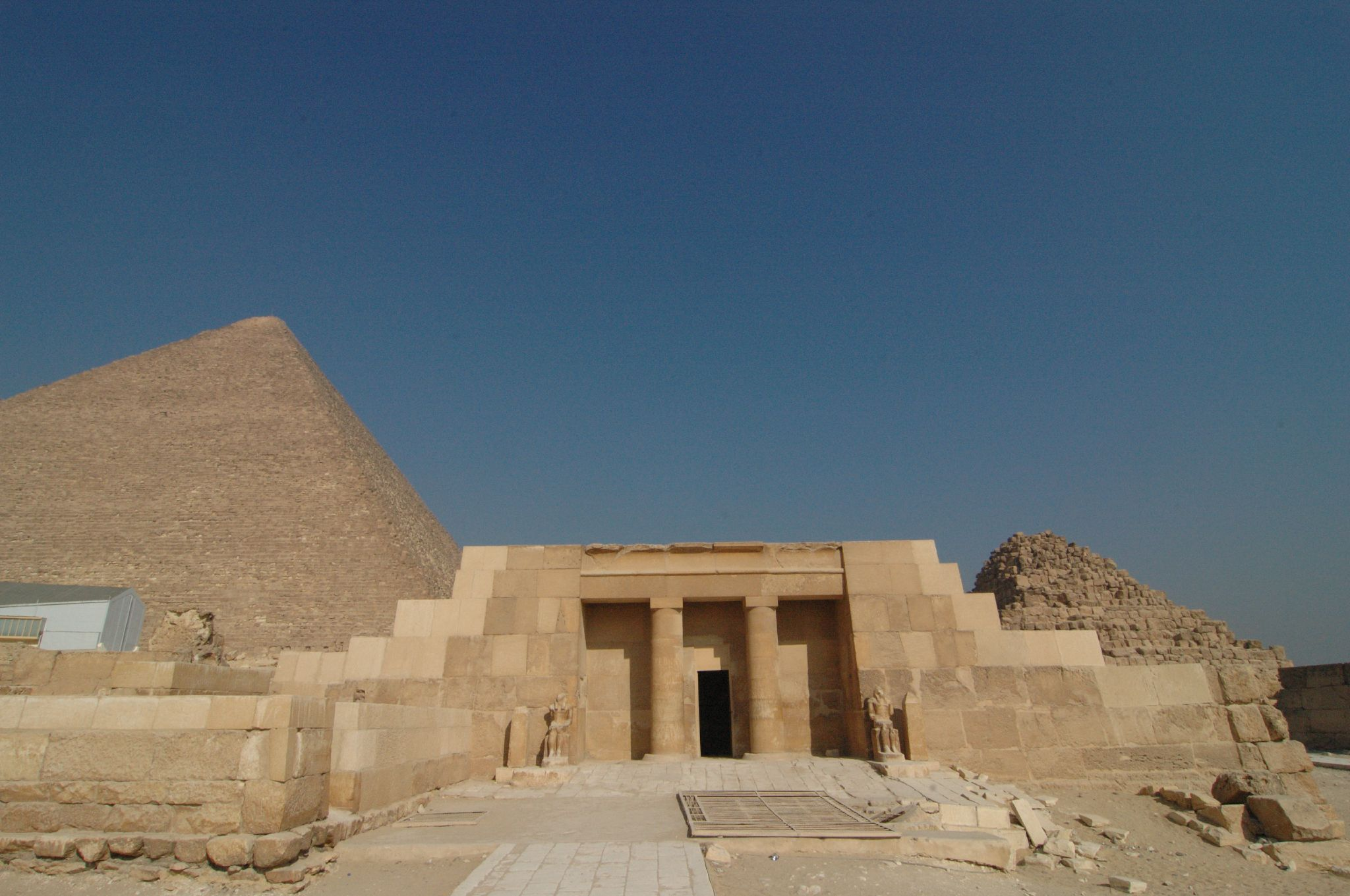 Mastaba of Seshemnefer IV (LG 53)